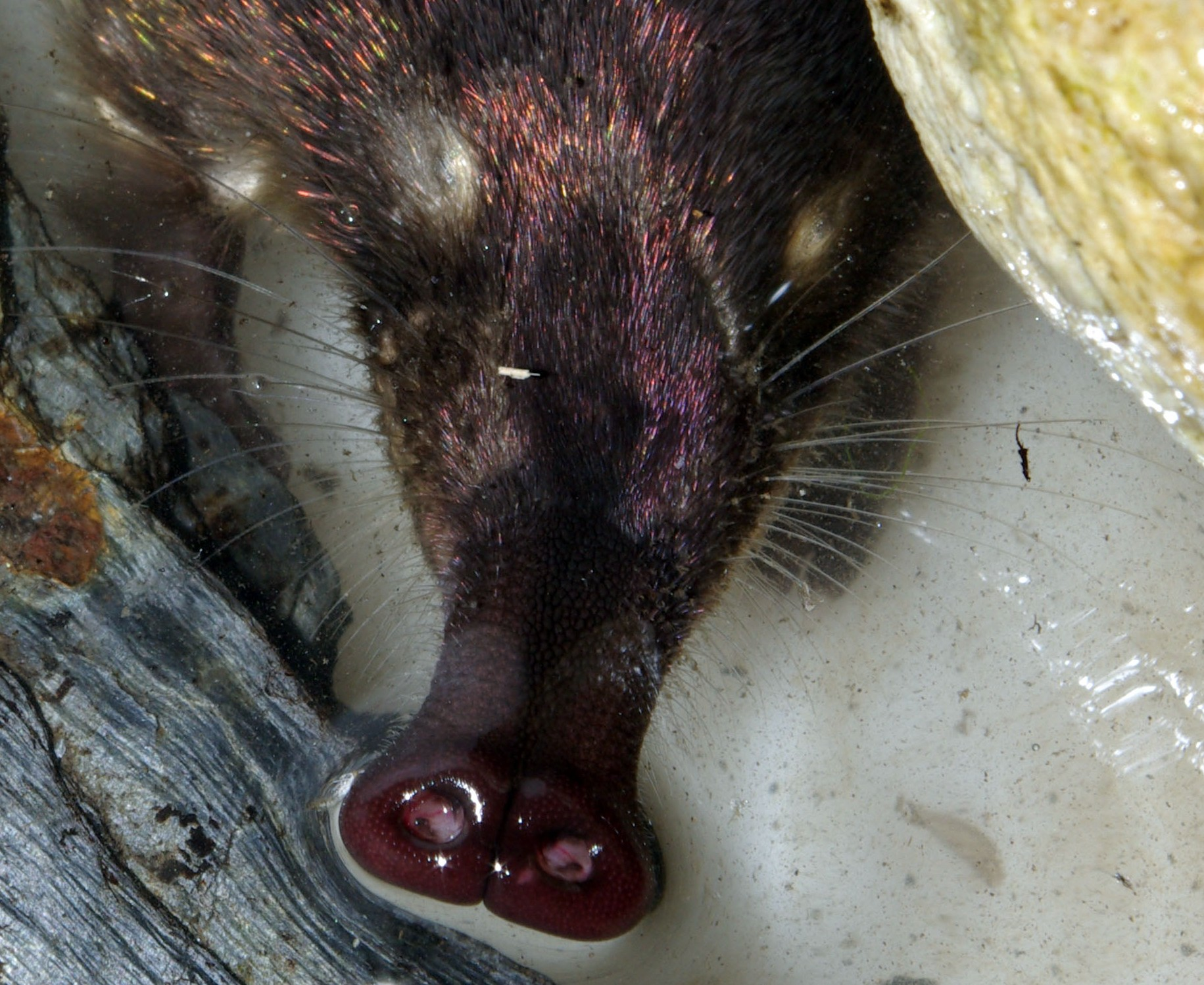 Pyrenean Desman (Galemys pyrenaicus). River Santa Eulalia, Cabrera sub-basin, Sil basin. Santa Eulalia de Cabrera, León (Spain).